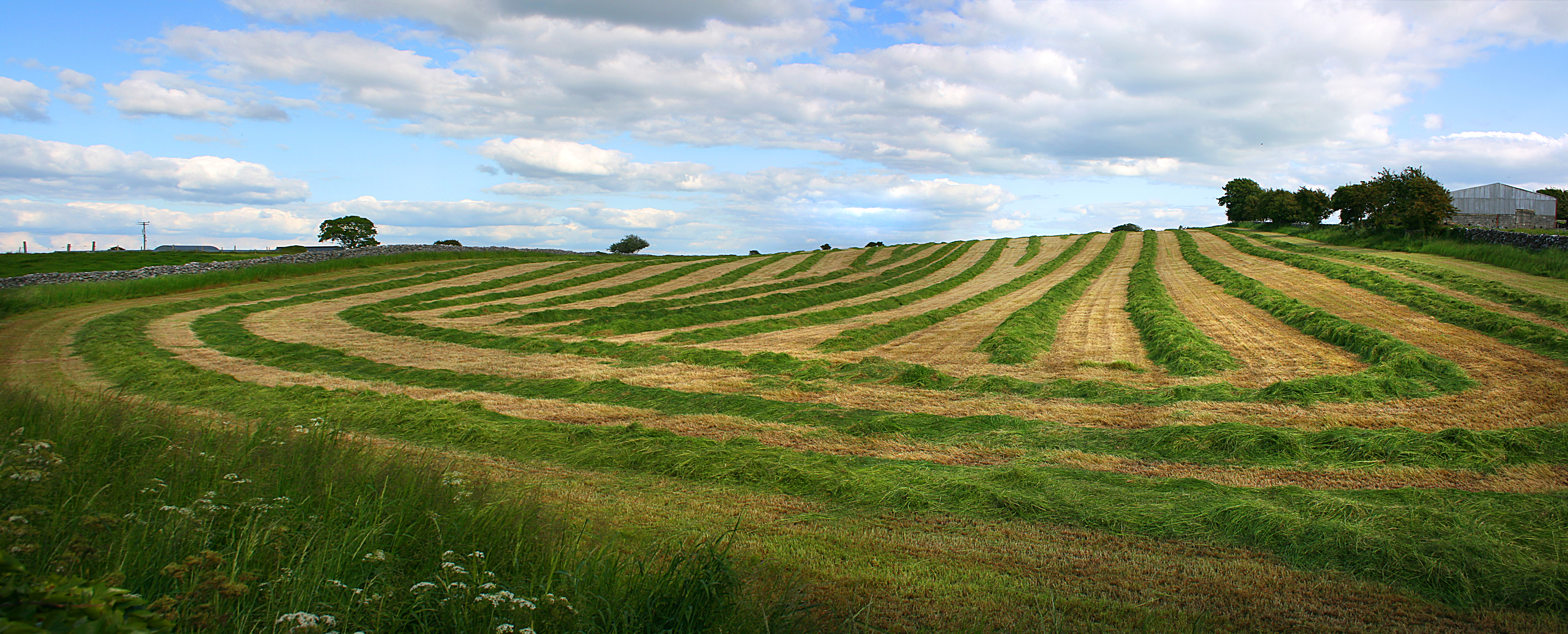 Windrows on a freshly-cut hay (silage) field, Maree, Galway, Ireland